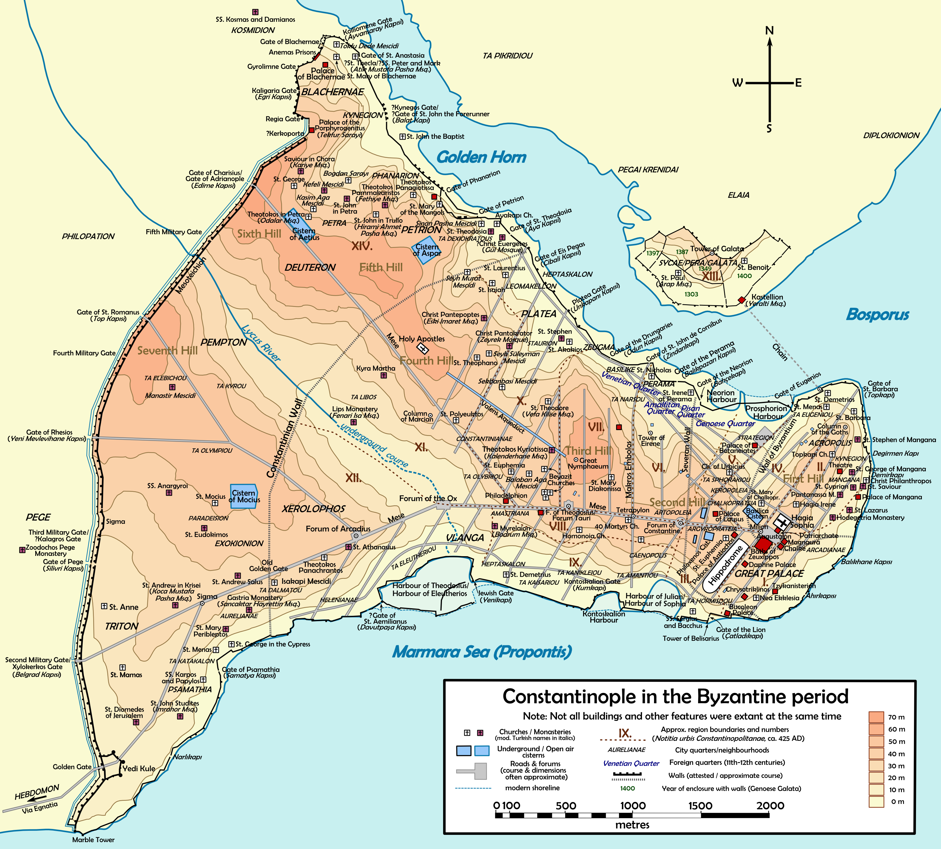 Topographical map of Constantinople during the Byzantine period. Main map source: R. Janin, Constantinople Byzantine. Developpement urbain et repertoire topographique. Road network and some other details based on Dumbarton Oaks Papers 54; data on many churches, especially unidentified ones, taken from the New York University's The Byzantine Churches of Istanbul project. Other published maps and accounts of the city have been used for corroboration.